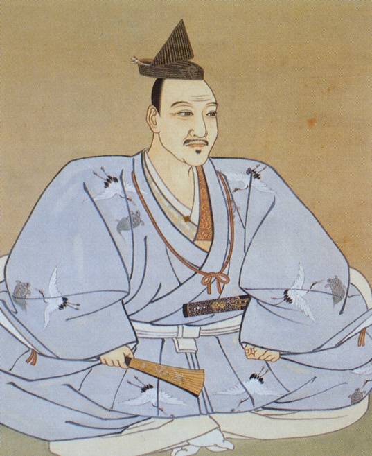 北条氏康、後北条氏三代目当主。戦国時代の日本の関東地方の大名。Hōjō Ujiyasu(1515—1571) was the son of Hōjō Ujitsuna and a daimyō (warlord) of the Odawara Hōjō clan.